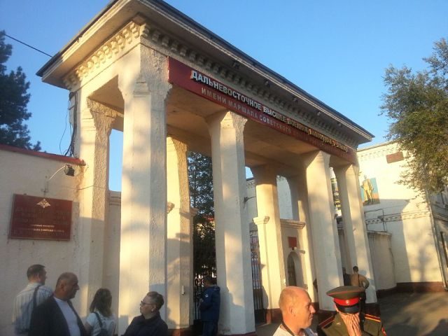 ДВВКУ